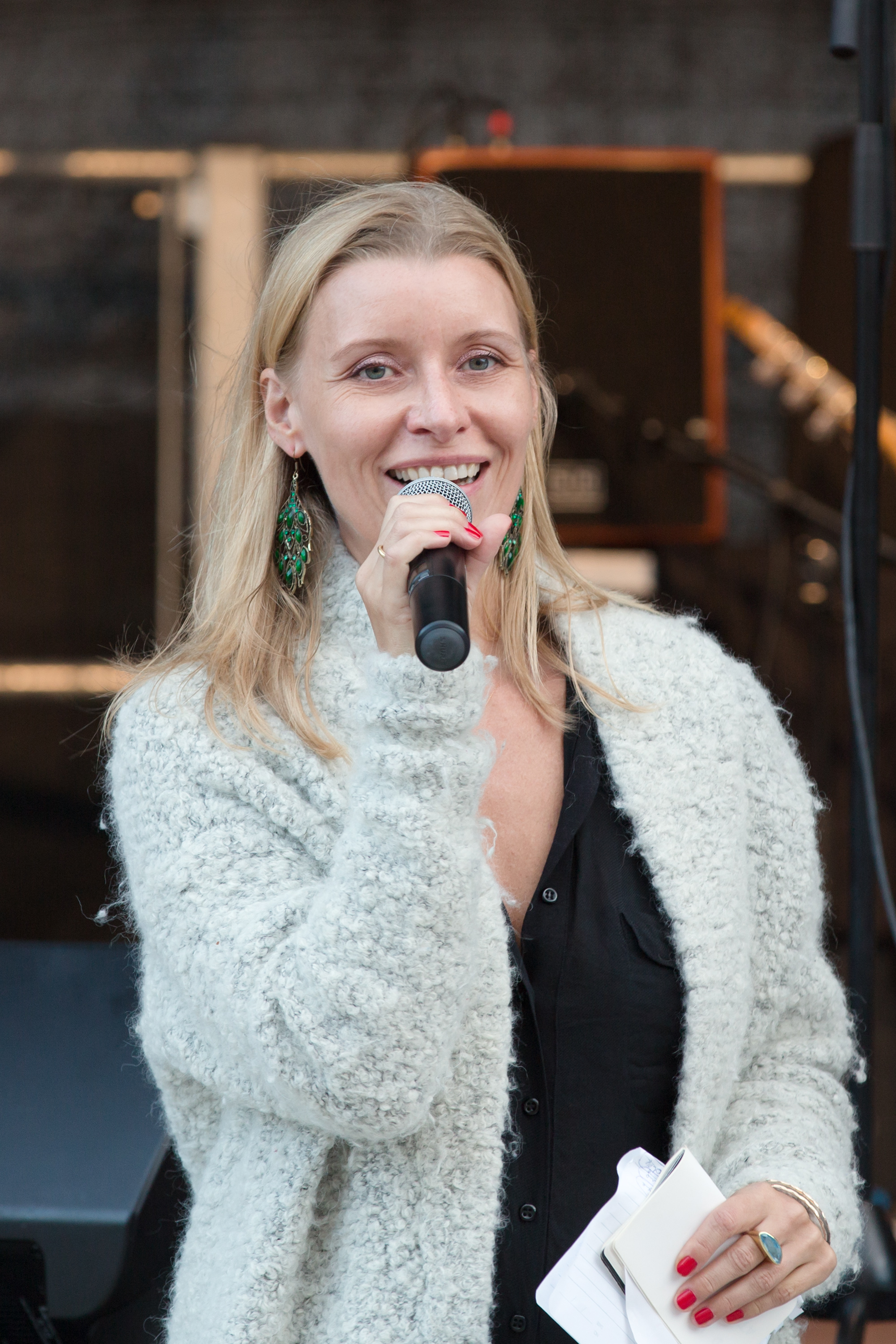 Gabriela Hegedüs opening the literary festival o-töne 2015 at Museumsquartier in Vienna, Austria.